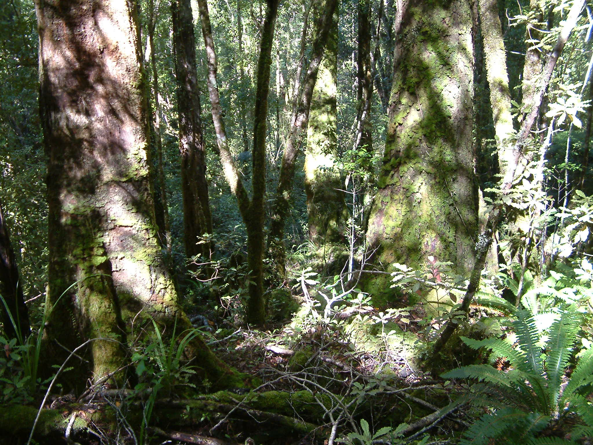 The podocarp forest west of MacKay hut on the Heaphy Track, South Island, New Zealand